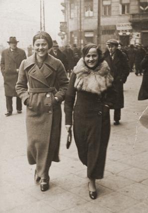 Ita Rozencwajg/Ita Rosenzweig and her cousin Frieda Belinfante walk down a street in Warsaw/Poland.